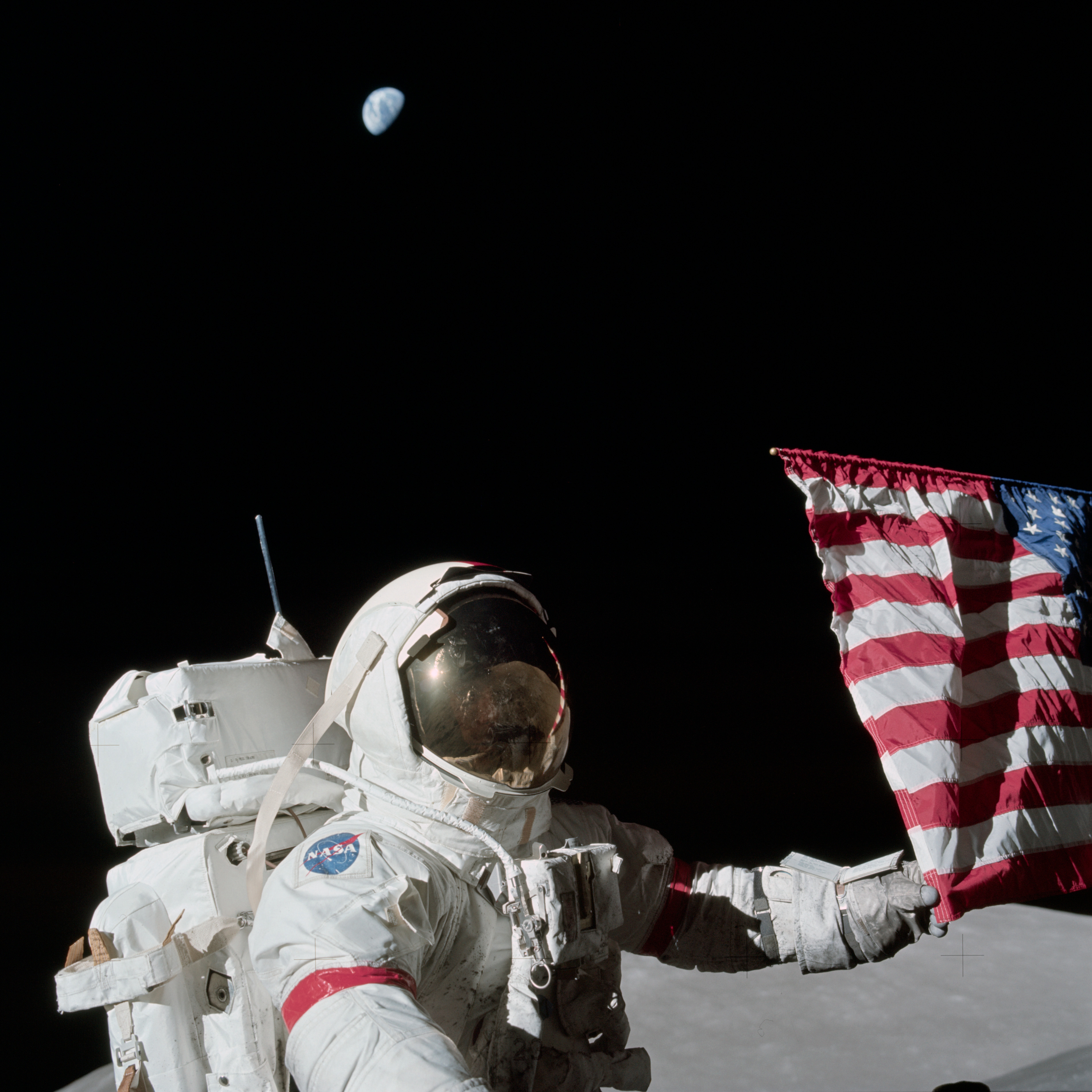 Eugene Cernan on the Moon, with Earth in the sky